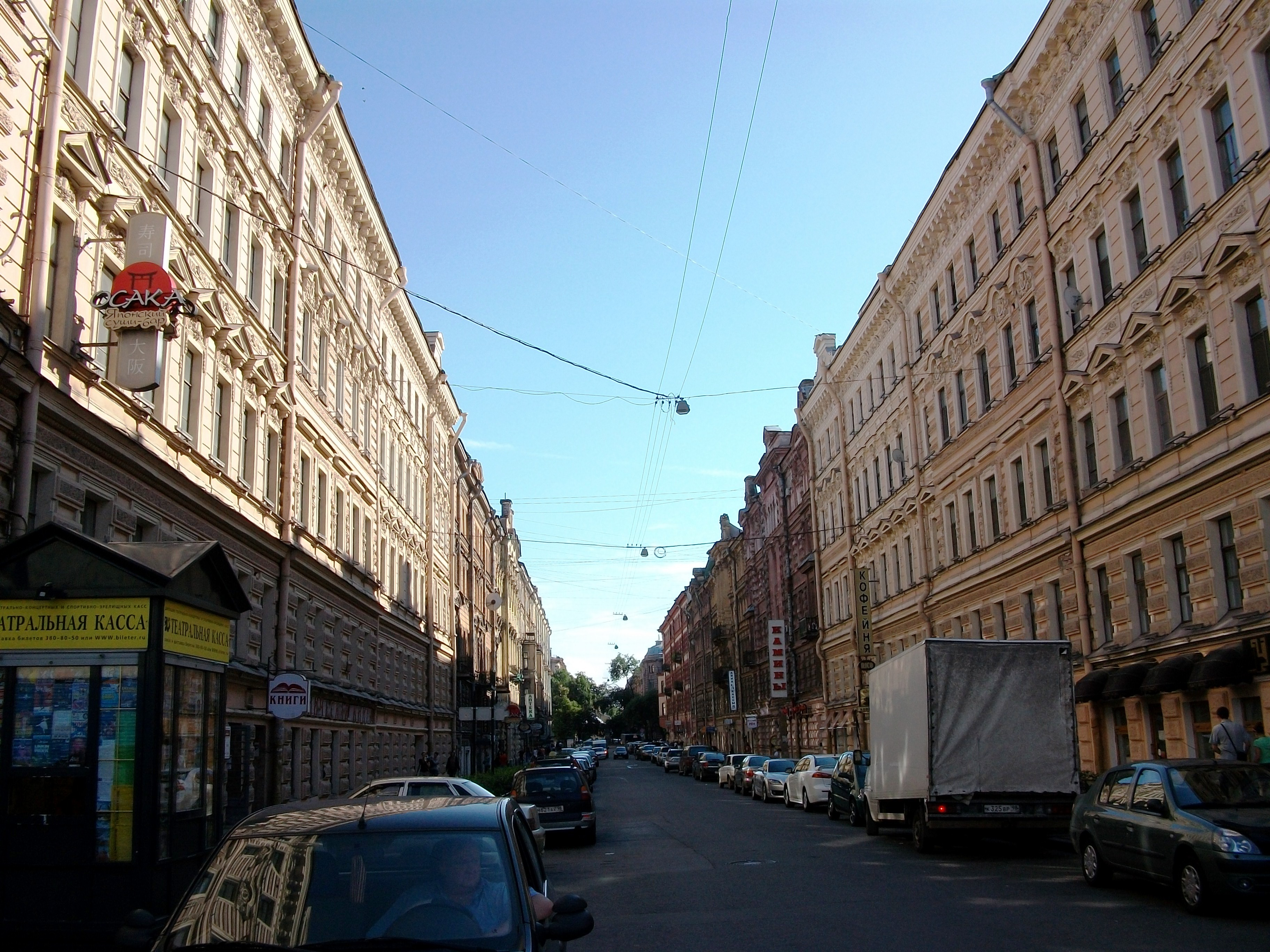 Apartments near Nevsky prospect, Saint Petersburg, Russia